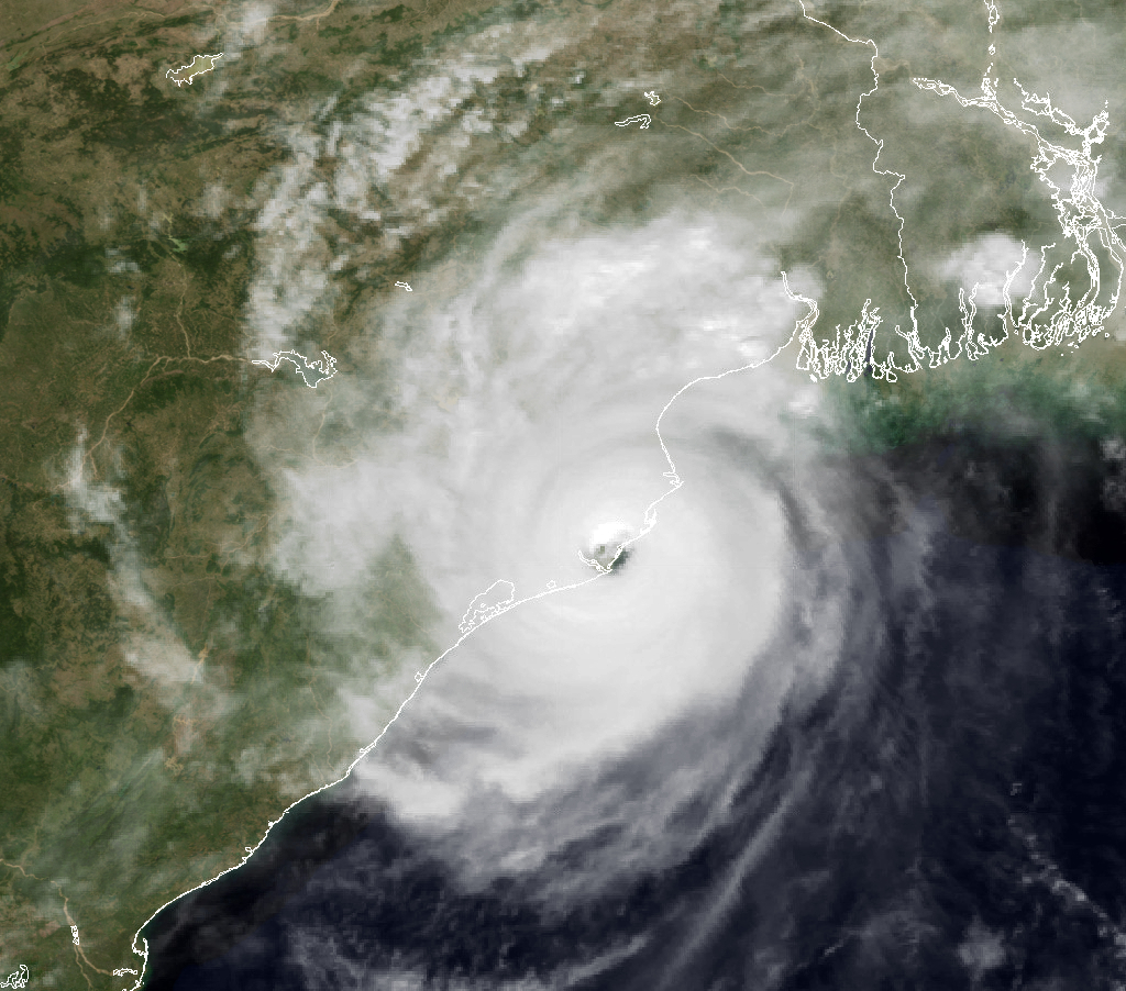 Indian cyclone 05B that hit Orissa region, in India, in late October 1999. This visible image has been taken from the METEOSAT-5 weather satellite on the 29th of October 1999 at 06 GMT. The center of Tropical Cyclone 05B made landfall at 05 GMT with an intensity of 135 knots.